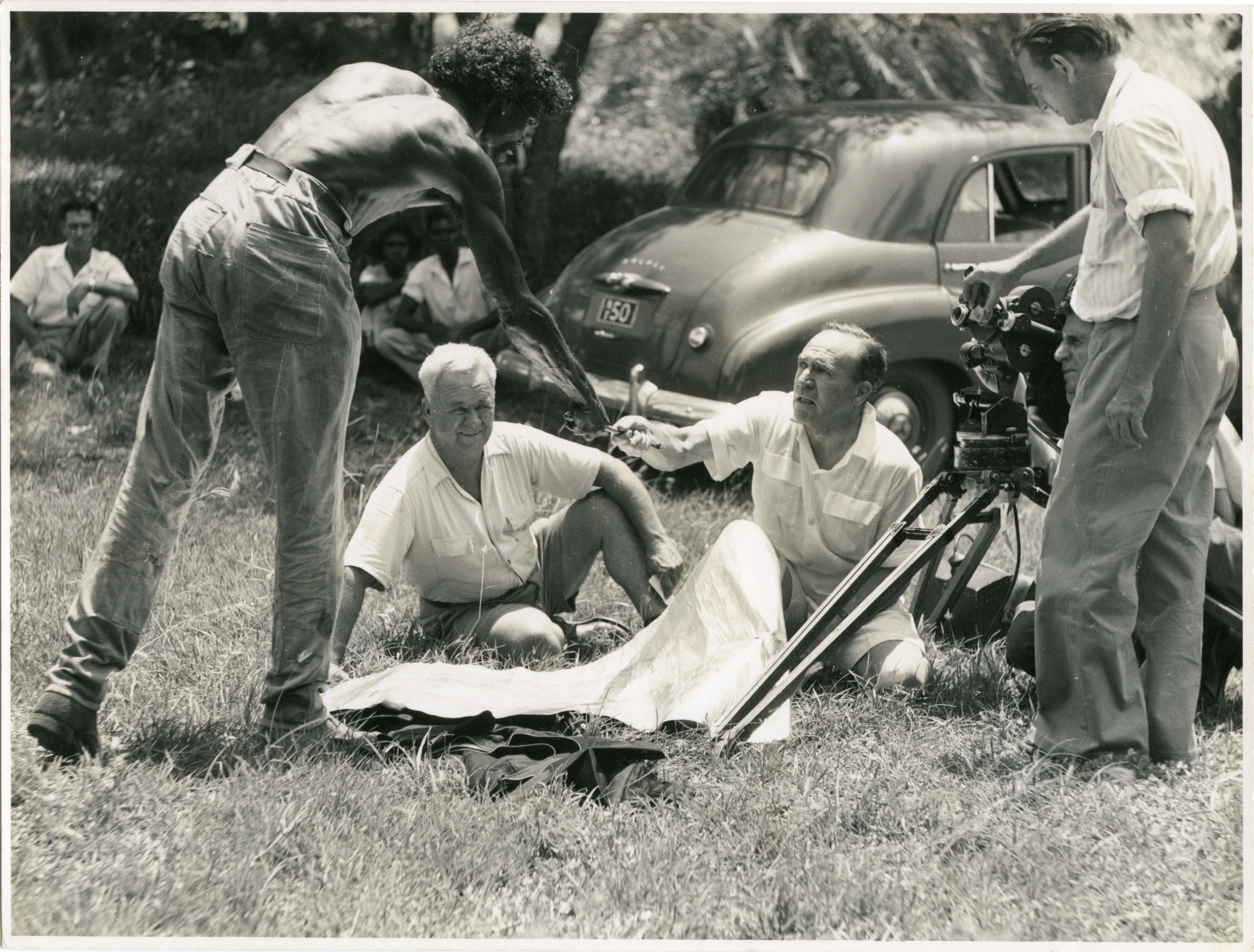 Bill Harney, seated left, and Charles Chauvel, seated right, Robert Tudawali standing, prior to the filming of Australian film Jedda.